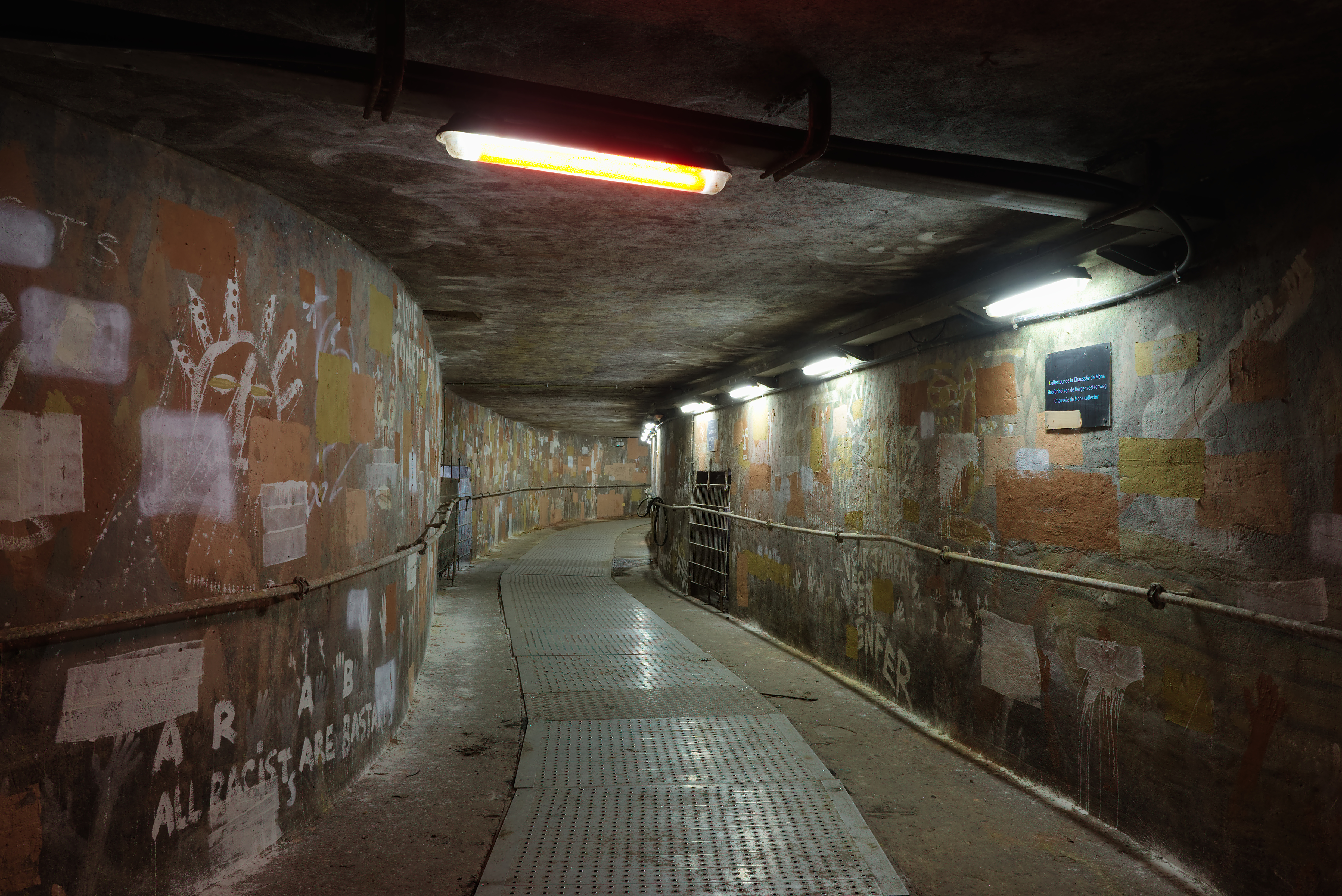 Brussels sewer museum